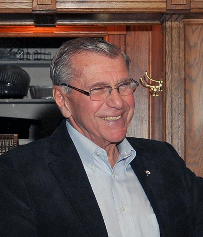 Joined my colleague Guy Lauzon this morning for breakfast in Cornwall. Thank you to everyone who made this event a success and to all the people who took the time to come out!